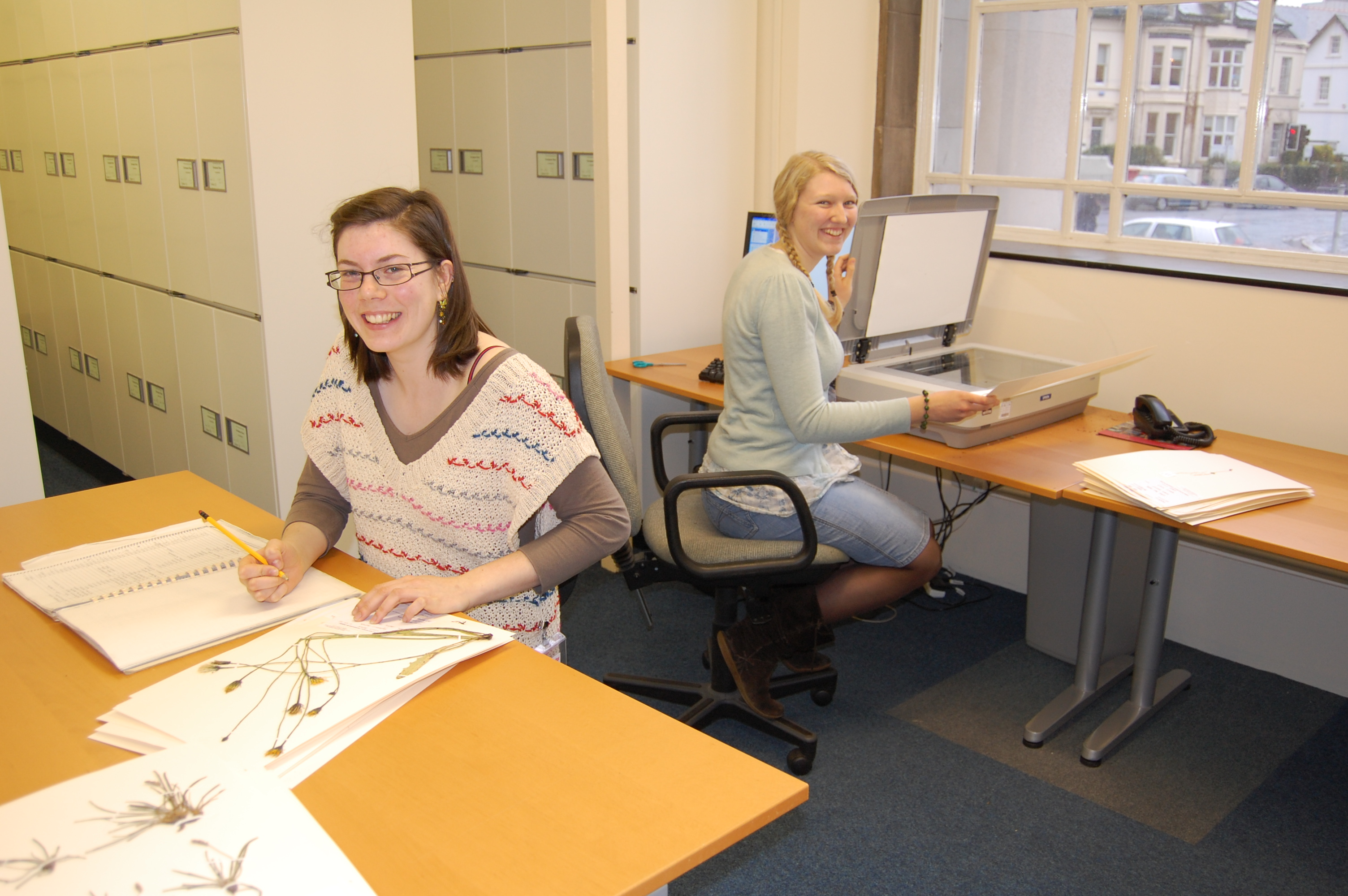 At the National Museum Wales for the Barcode Wales project The Barcode Wales Paper